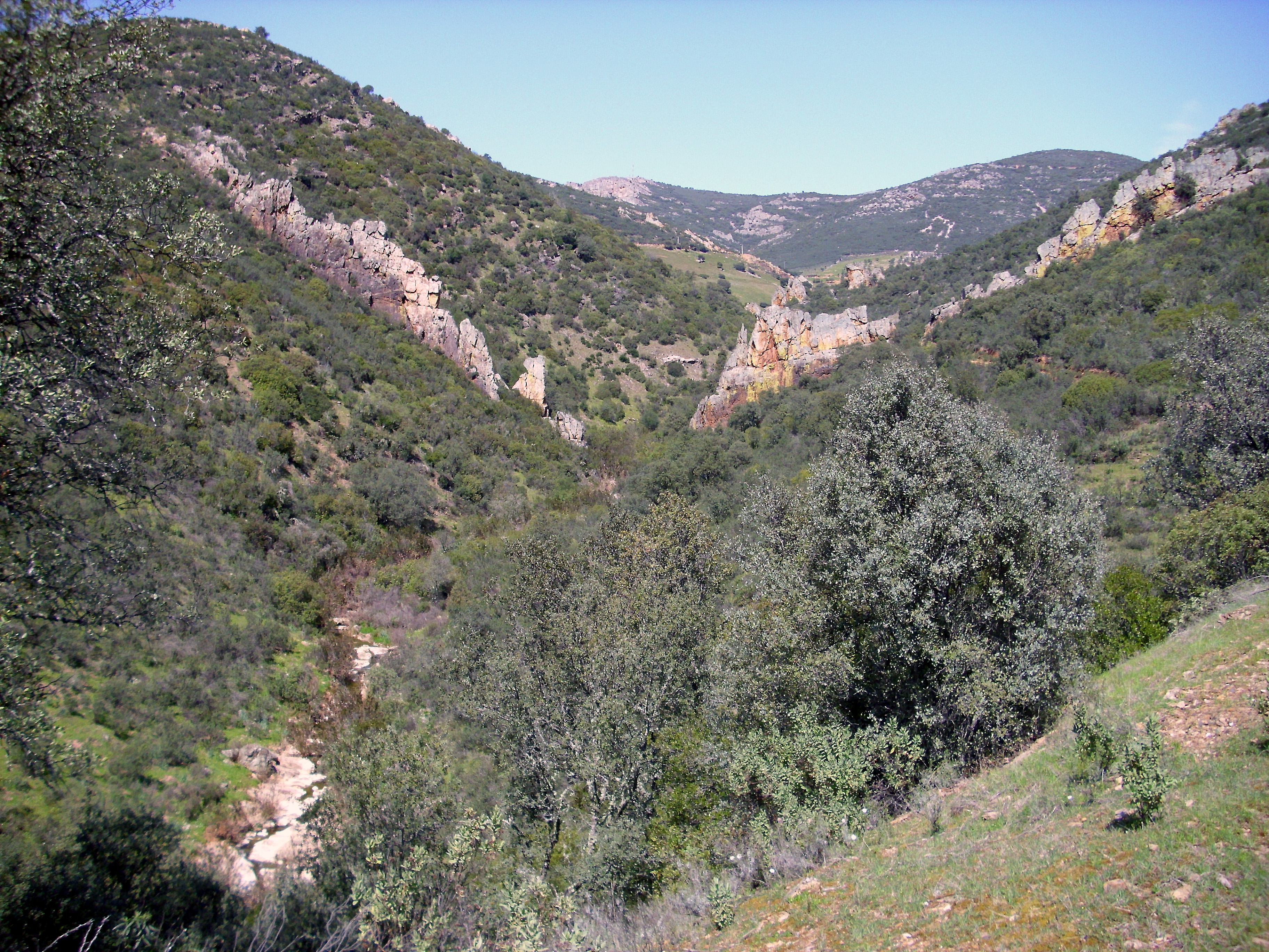 Bellis annua down to Barquizuelas, Solana del Pino, Sierra Madrona, Spain